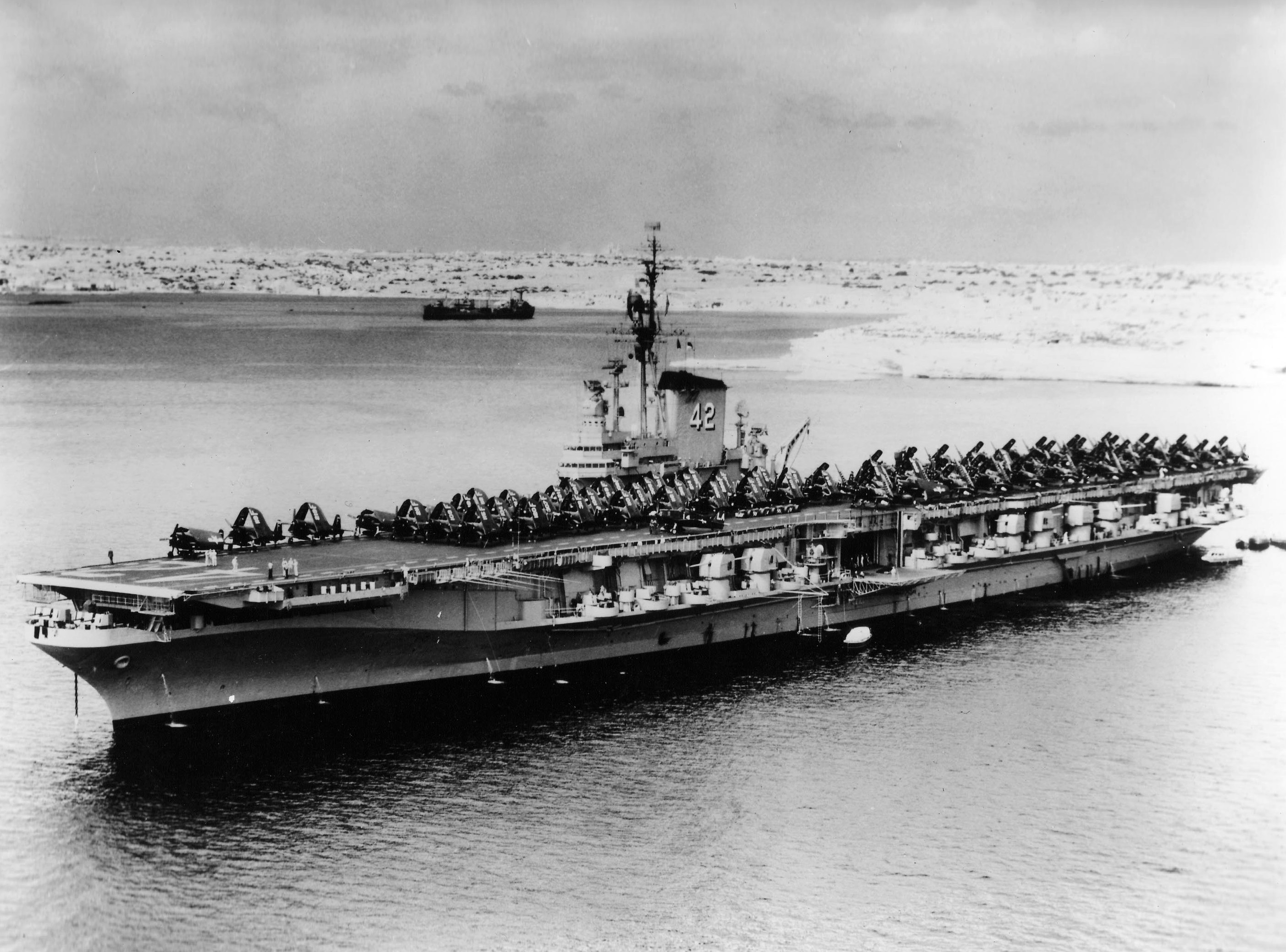 The U.S. aircraft carrier USS Franklin D. Roosevelt (CVB-42) anchored at an unknown location in the Mediterranean Sea. On the flight deck are various aircraft of Carrier Air Group 4 (CVG-4) which was delpoyed aboard the FDR from 13 September 1948 to 23 January 1949. Next to the island are Vought F4U-4 Corsair fighters of fighter squadrons VF-41 Gay Blades and VF-42 Green Pawns, aft are Douglas AD-1 Skyraider attack planes of attack squadrons VA-44 Scarlet Knights and VA-45 Fish Hawks. Four Grumman F6F-5N night fighters (tail code "LA") and another single Grumman TBM-3W Avenger (backwards folding wings aft of the island) are also visible.